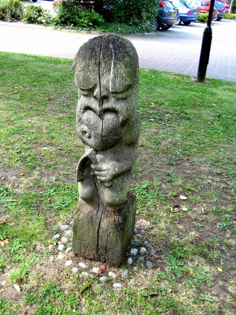 Maori Sculpture - Ninesprings Yeovil